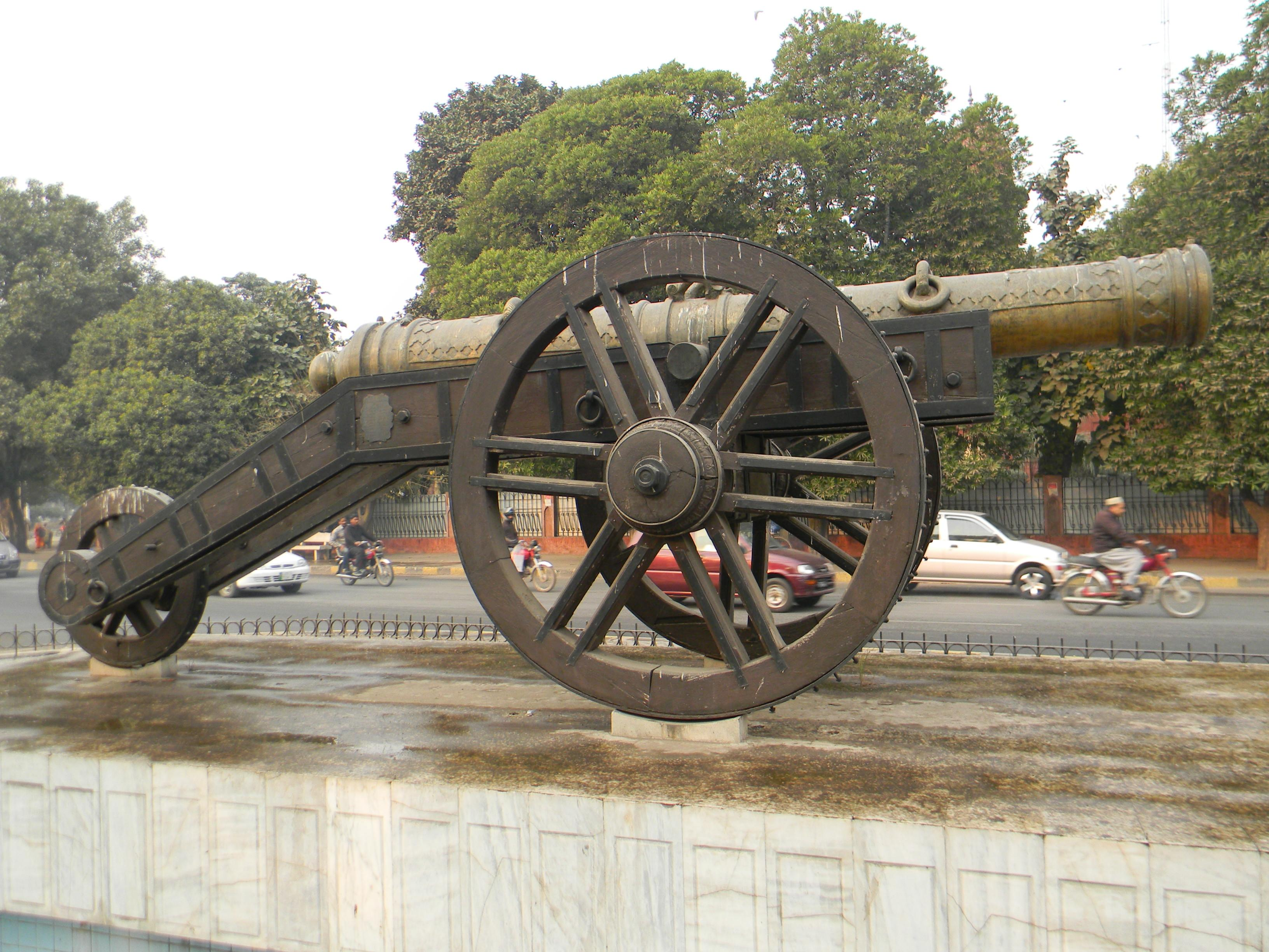 Zamzama Gun before Lahore Museum for Punjabi WIkipedia